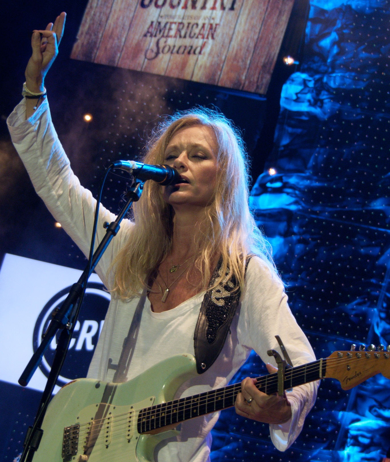 Shelby Lynne performing live at "Country in the City" at Century Park in Century City (Los Angeles) California on Saturday July 26th, 2014.